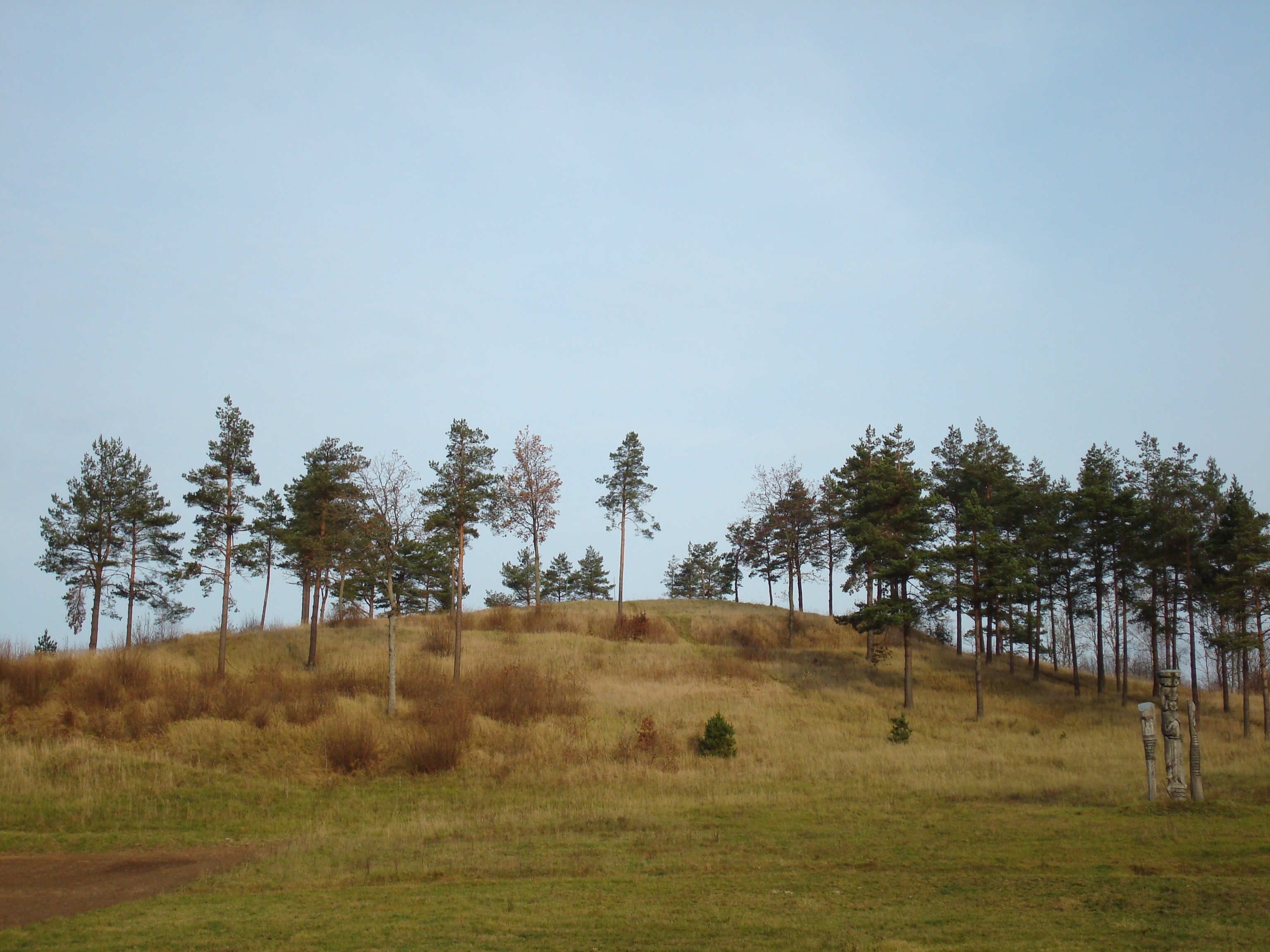 Pilės mound (or Kepaluškalnis) near Kaltinėnai town, Lithualia